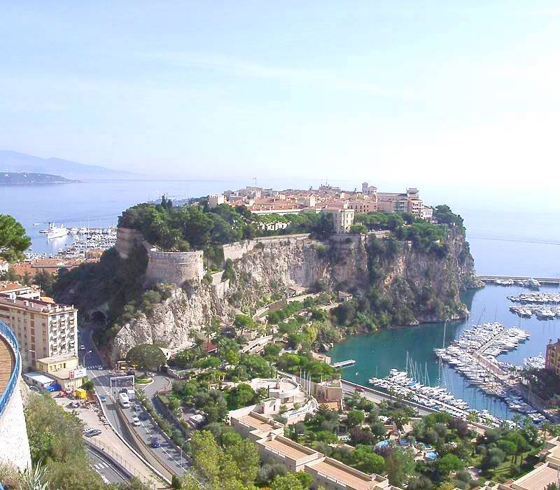 View of the peninsula of Monaco-Ville with the Princely Palace. To left of the peninsula: Port of Hercule, to its right: Port of Fontvieille. Seen from the Jardin Exotique's outlook platform.